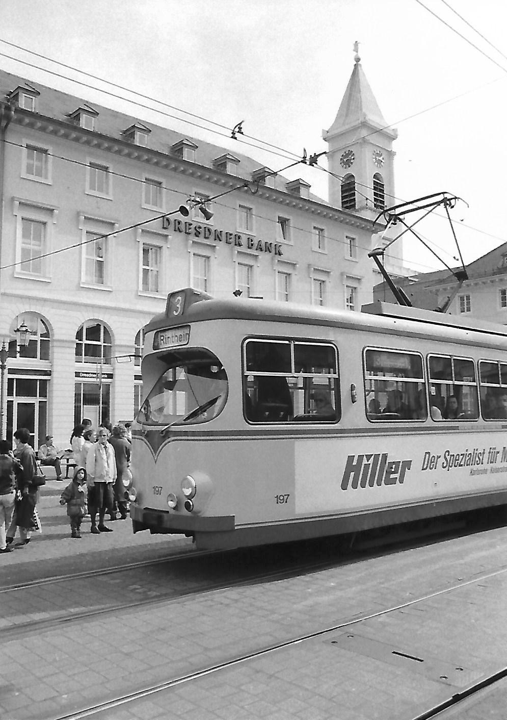 Tramcar 197 (class GT8-D) at Marktplatz in Karlsruhe in 1993